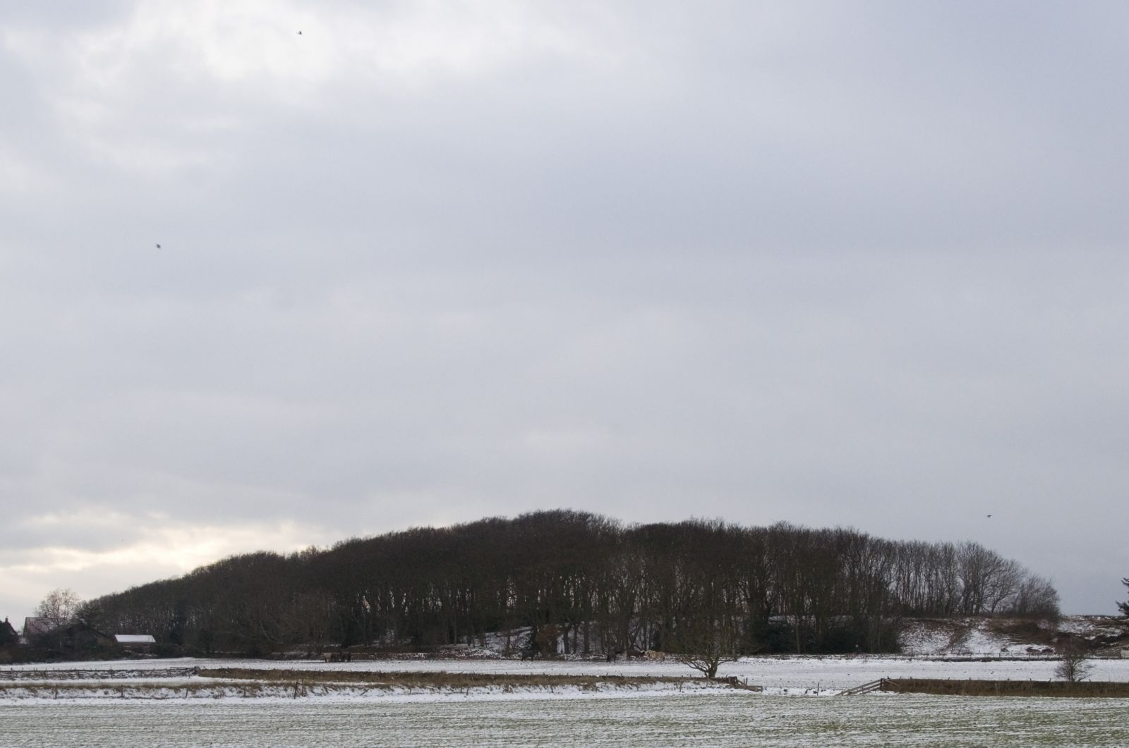 Texel - Hoge Berg - Skillepaadje - View WNW on 'Doolhof'